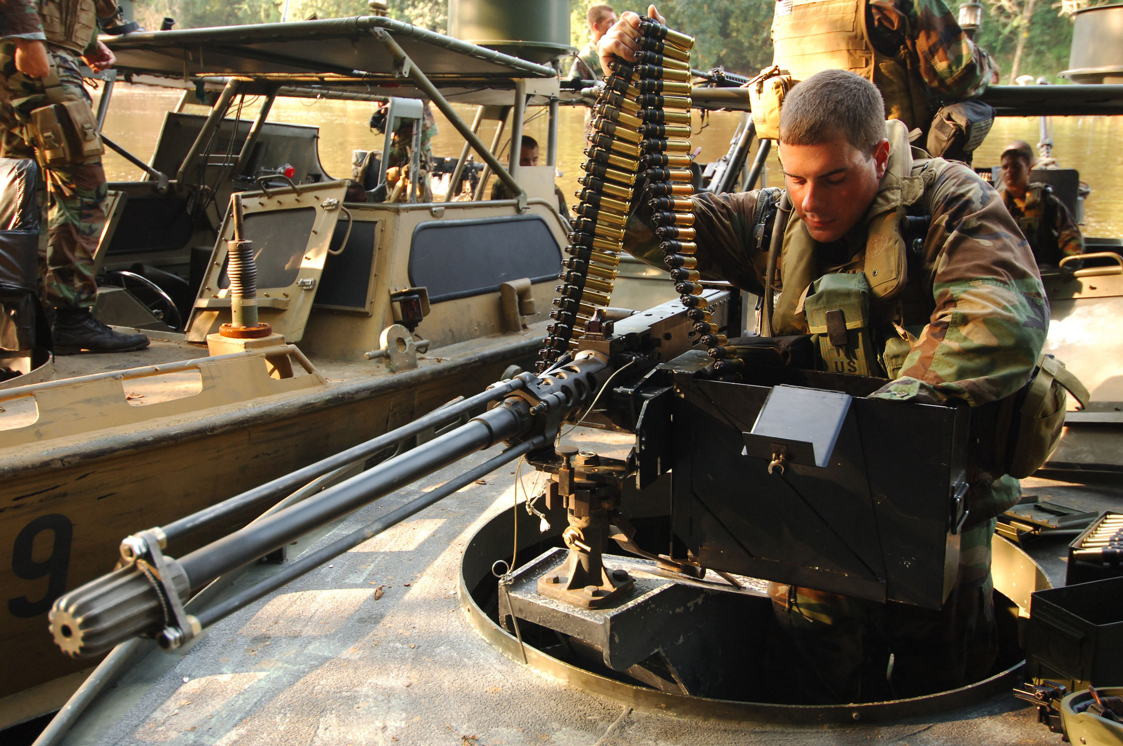 Navy Seaman Apprentice Sean Costello loads a .50-caliber machine gun aboard a riverine assault craft at Camp Lejeune, N.C., on Sept. 8, 2006. U.S. Navy sailors with Riverine Group One are conducting high-speed, small unit riverine craft training in the Cape Fear River in North Carolina.